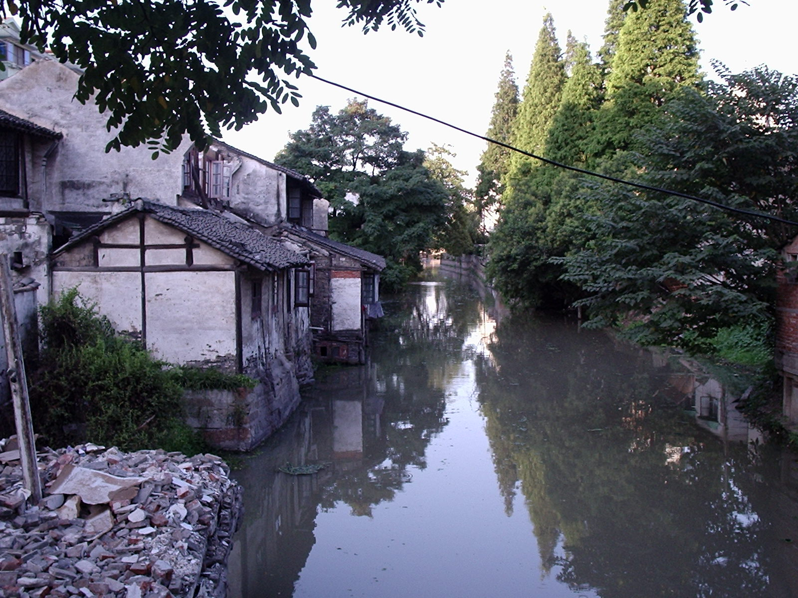 These quaint, slightly dilapidated buildings in Jai Ding (a western district of Shanghai) next to an old canal, present an intresting contrast to the rest of the ultra-modern city.